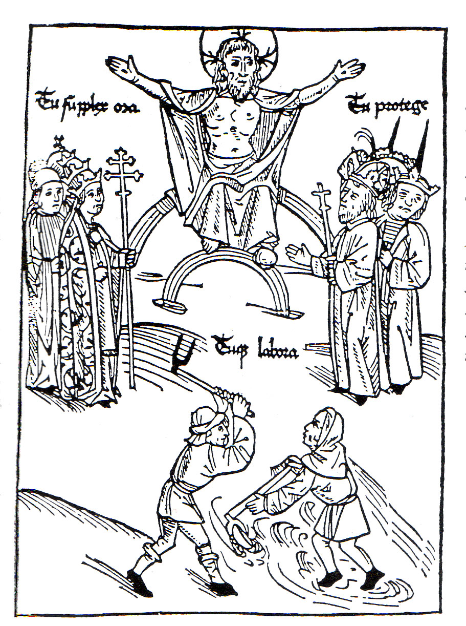 The three estates of the realm. Woodcut by Jacob Meydenbach, from Prognosticatio by Johann von Lichtenberg, 1488.